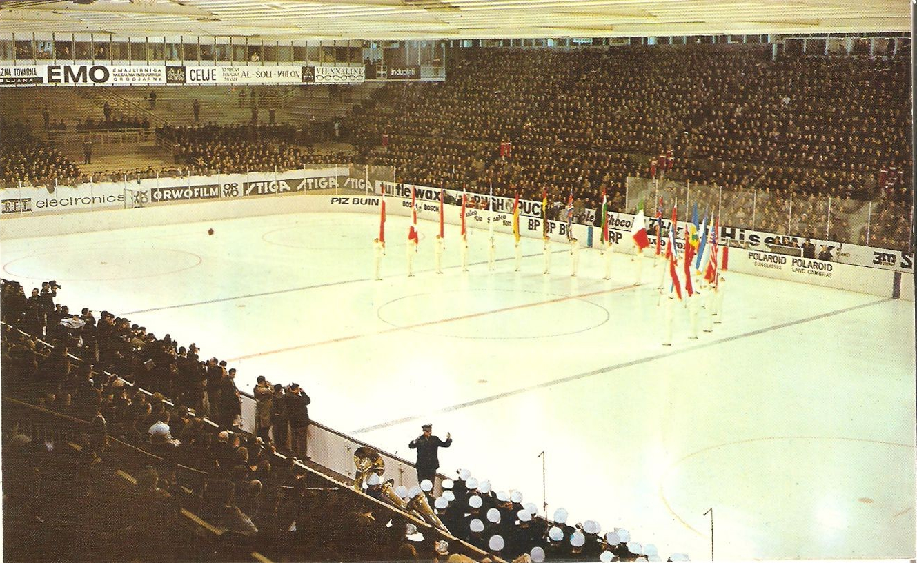 Postcard of Ljubljana